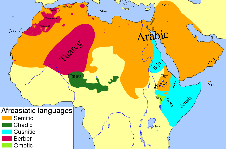 Map of currently-spoken areas of languages in the different branches of the Afro-Asiatic language family (formerly called Hamito-Semitic languages). Areas where Semitic languages are spoken are shown in orange on this map.